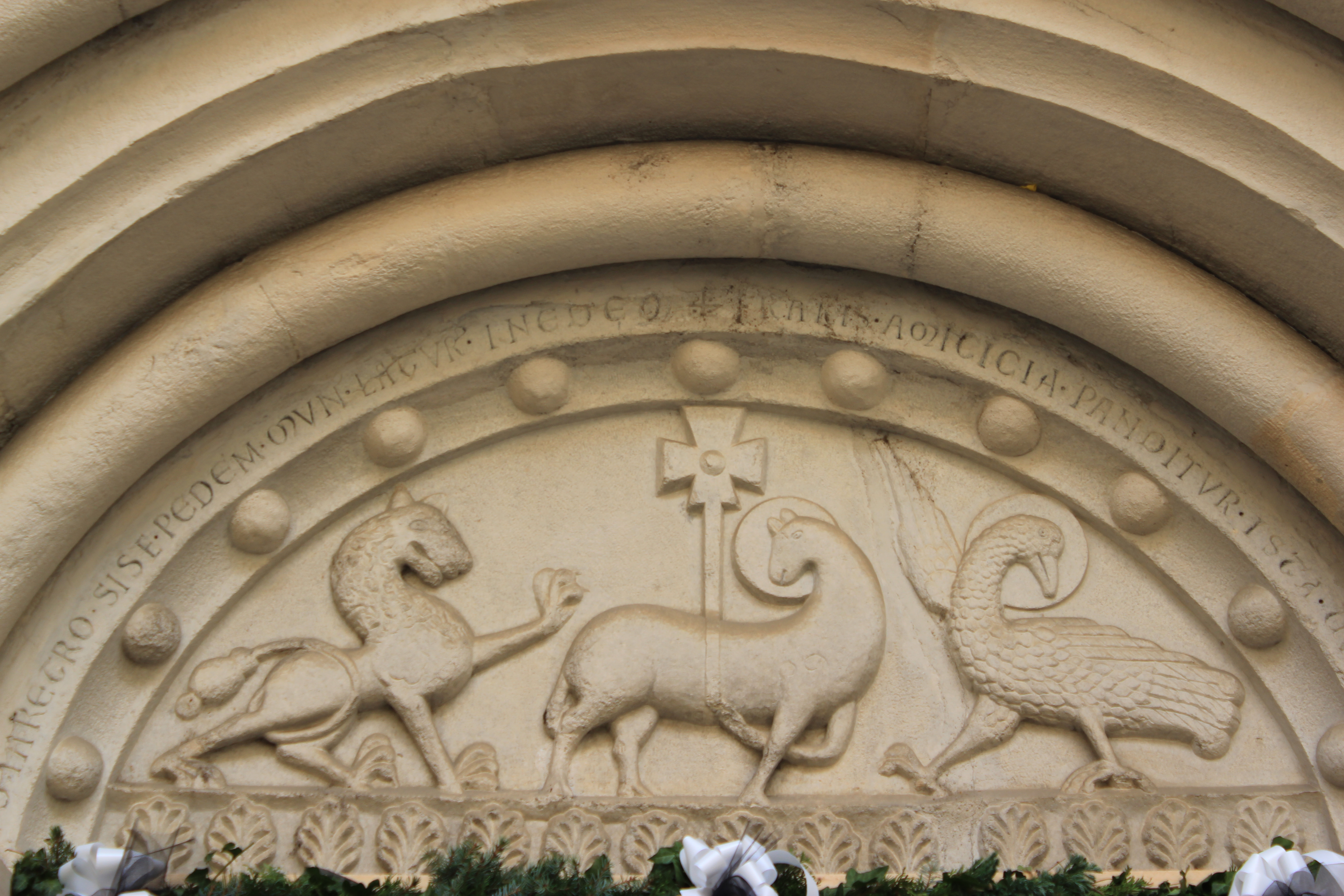 Parish church in Sankt Veit an der Glan - Tympanum